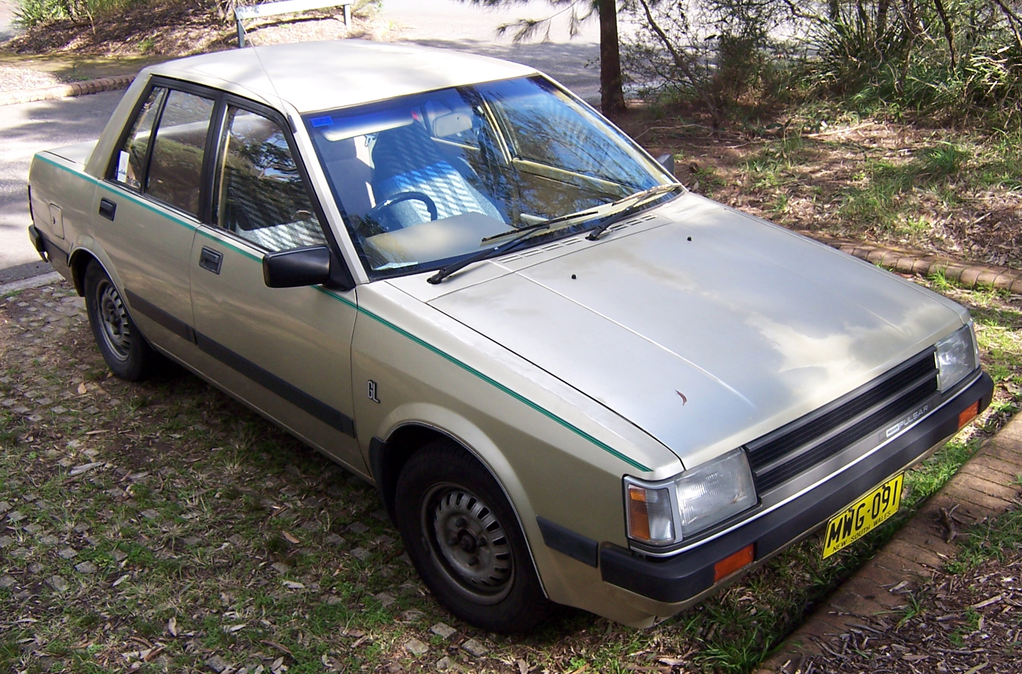 1983 Nissan Pulsar (N12) GL sedan. Photographed in Audley, New South Wales, Australia.